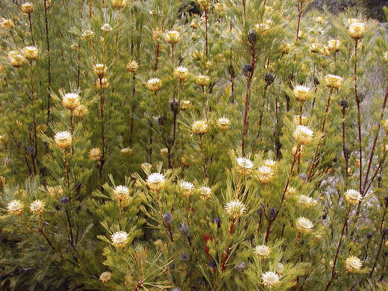 Isopogon anethifolius, Maranoa Gardens (Balwyn, Melbourne) - April 2004 photo Cas Liber